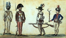 American soldiers at the siege of Yorktown, by Jean-Baptiste-Antoine DeVerger, watercolor, 1781. The African American soldier is supposedly from the first Rhode Island Regiment